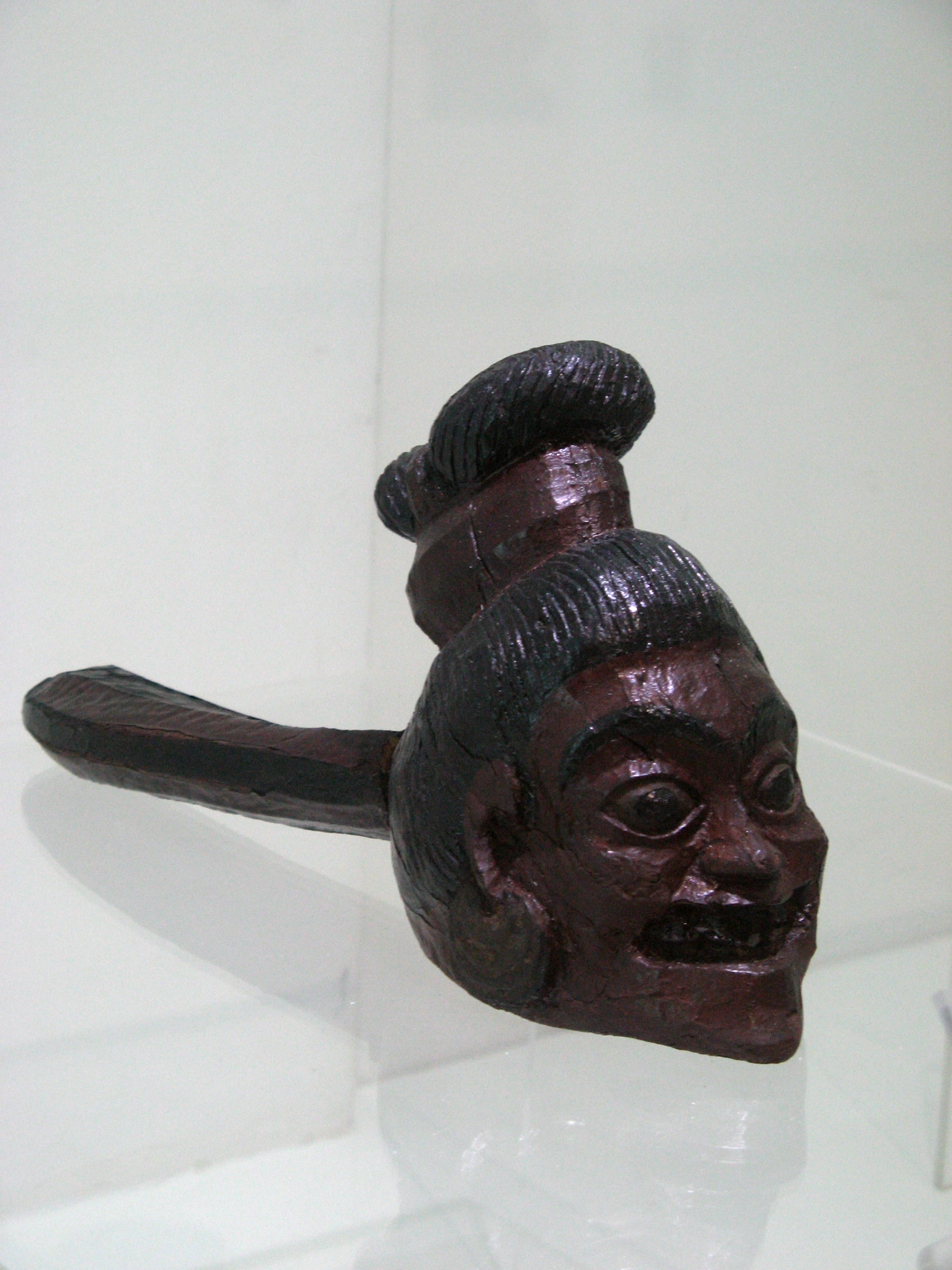 Lacquered wood head of a person. Western Han Period (206 BC - 25 AD). Yunnan Provincial Museum, Kunming